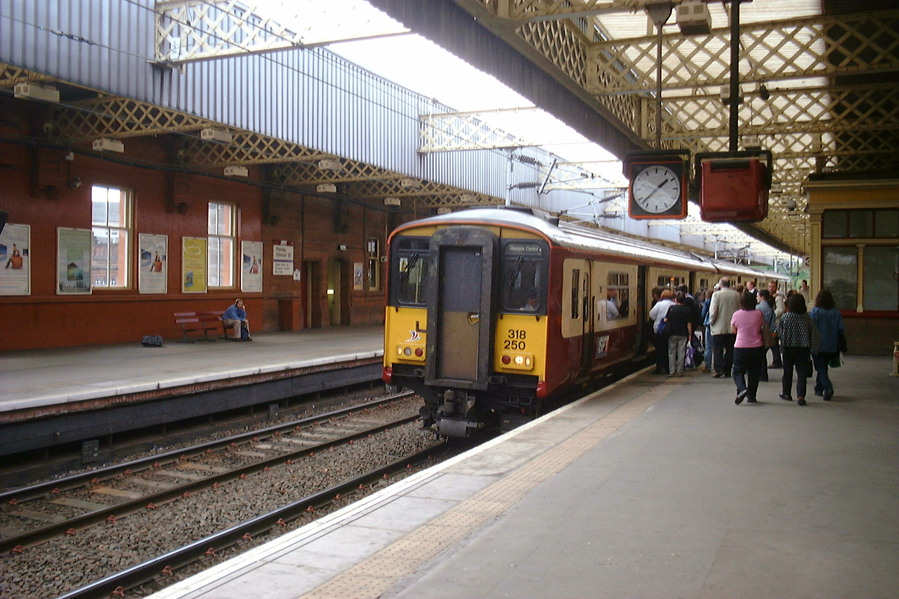 Train at Paisley Gilmour Street railway station.